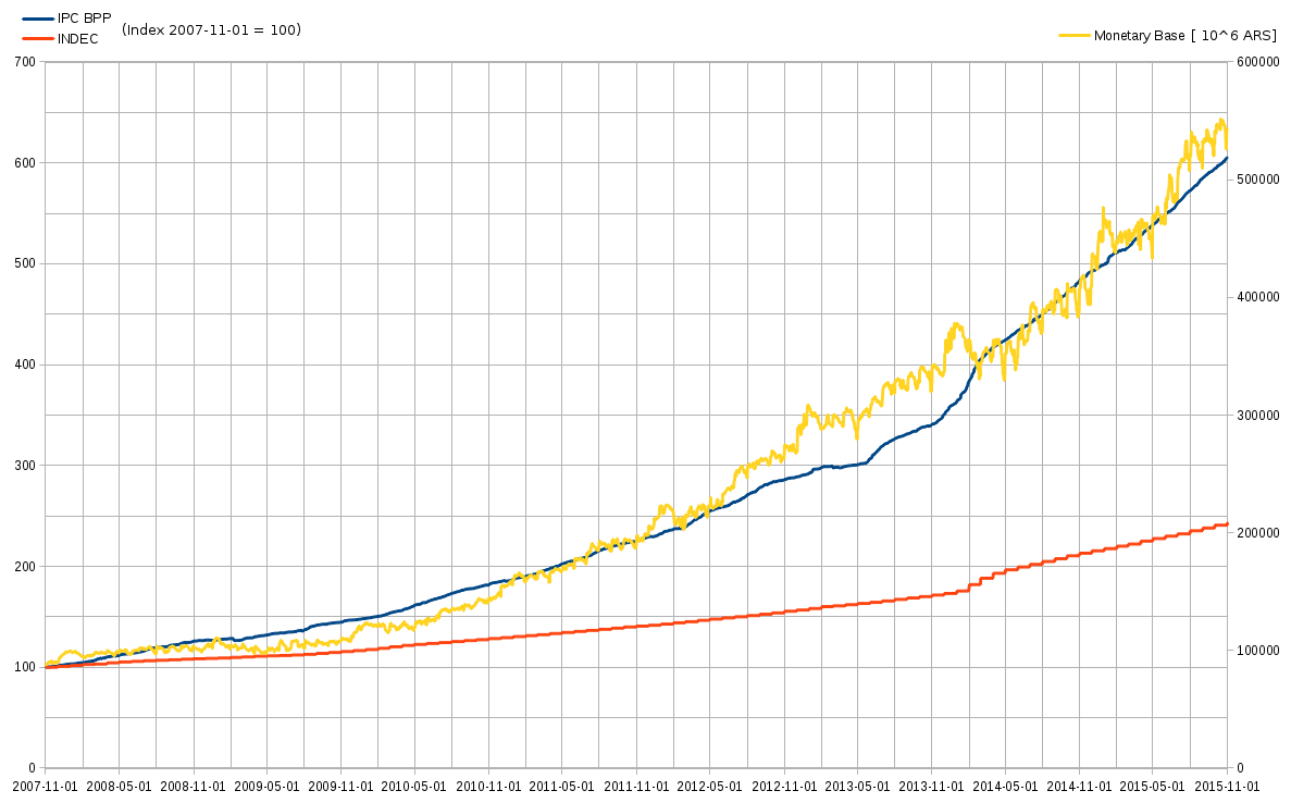 Argentina official consumer price index (INDEC/canasta básica) (orange) and alternative CPI (MIT Billion Prices Project) (blue) and Monetary base (yellow). from November 2007 to November 2015.